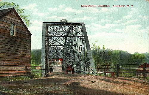 Postcard image of bridge over Normans Kill at Kenwood, New York (today in Albany) Albany and Bethlehem Turnpike